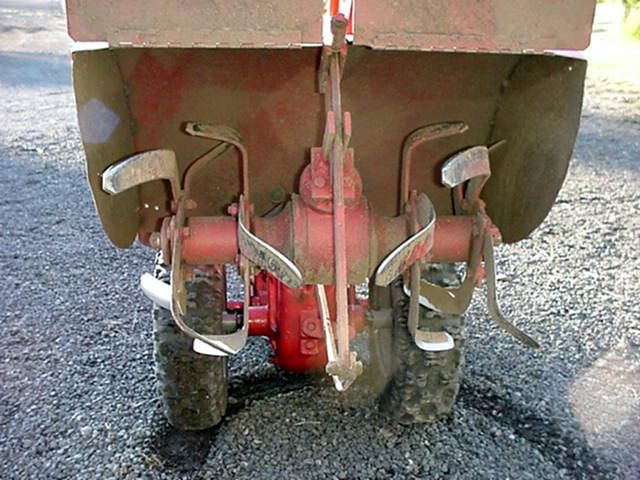 View of the rotary tines on a TroyBilt Horse rear tine rototiller.